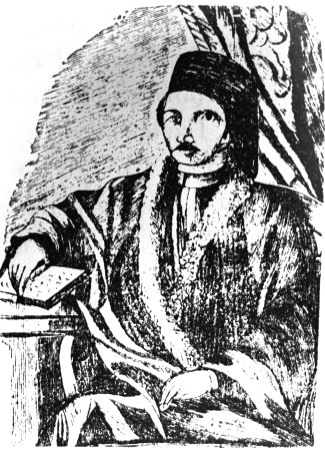 Theodoros o Fokaeus (1790-1851): Greek musician)